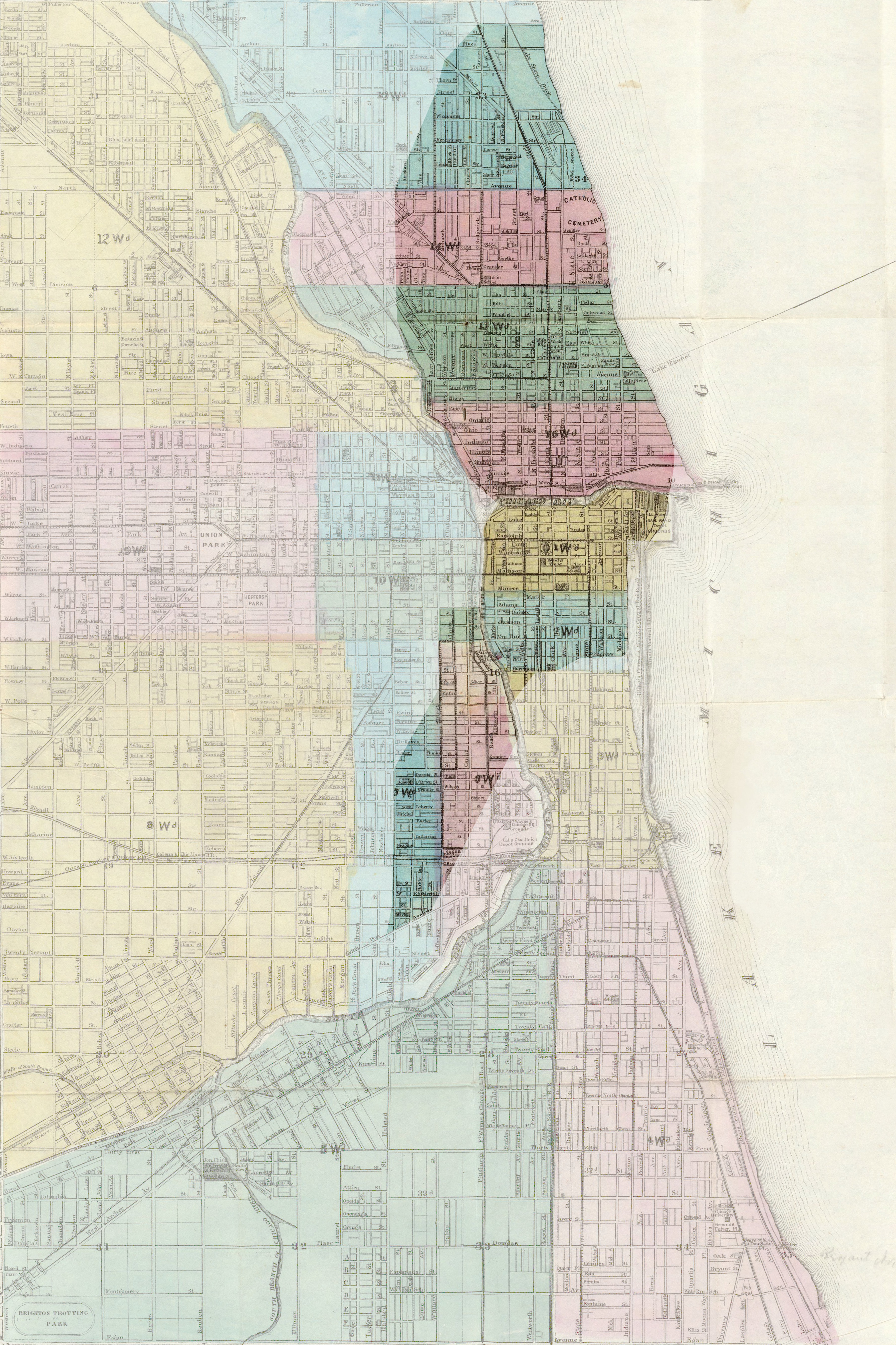 Map of Chicago, showing the burned area after the Great Chicago Fire in 1871.